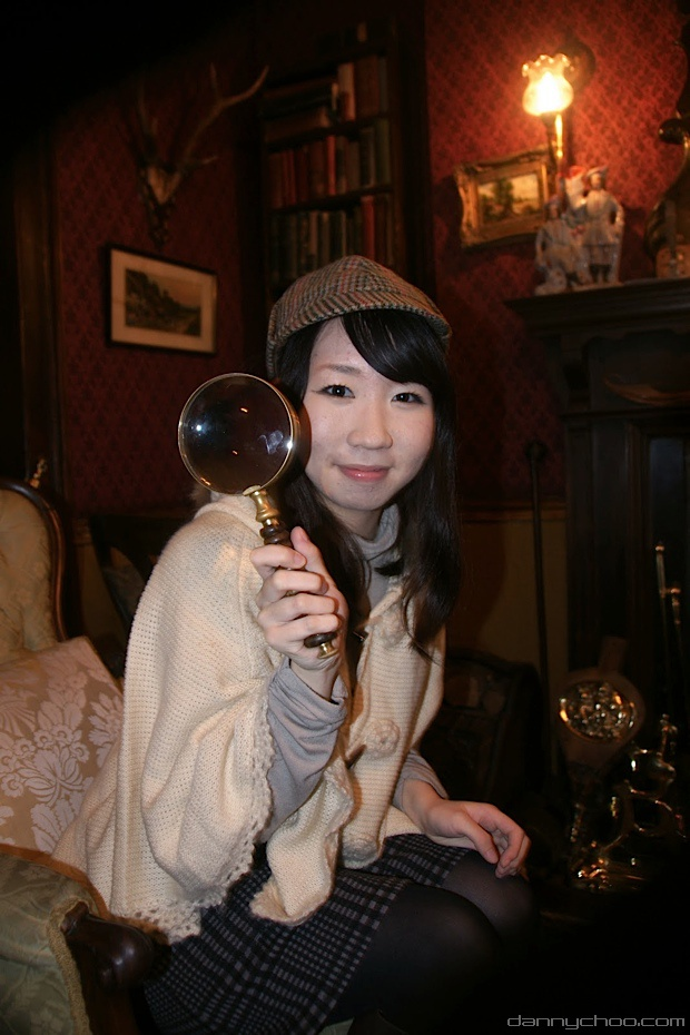 View more at